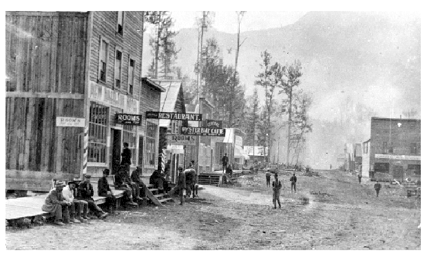 Photographer: Unknown Photo taken:1914 Source:B-07411 [1]